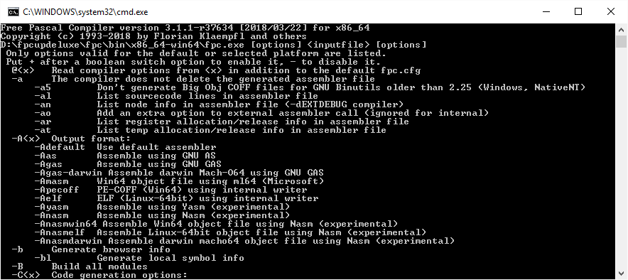 Free Pascal 3.1.1 running from the command line on Windows 10, with a partial list of options visible.